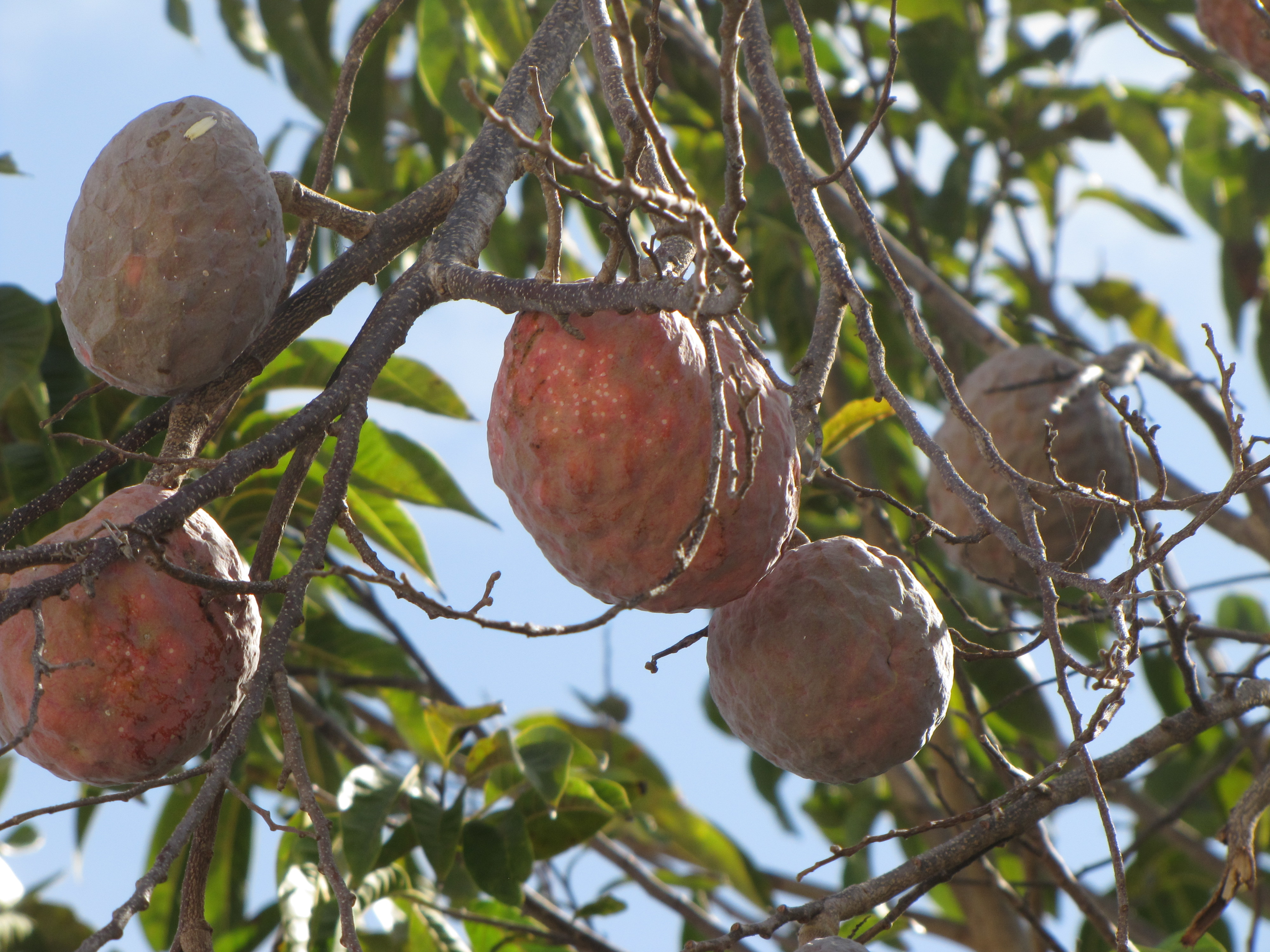 Annona fruit on tree of 5 meter tree in my backyard, Merida, Yucatan, Mexico